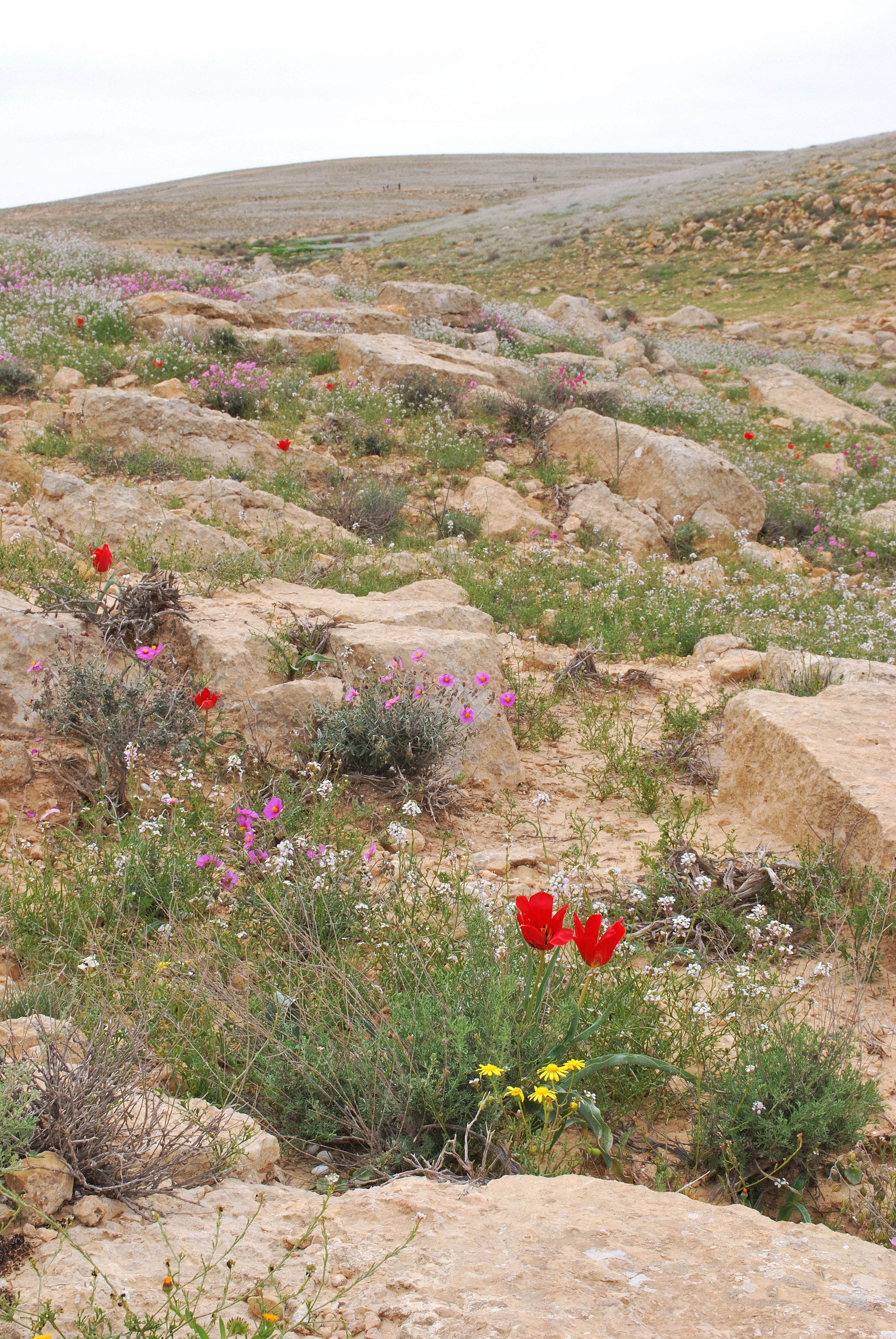 Spring bloom in Borot Lotz, Negev Mountains, Israel, March 5, 2010.